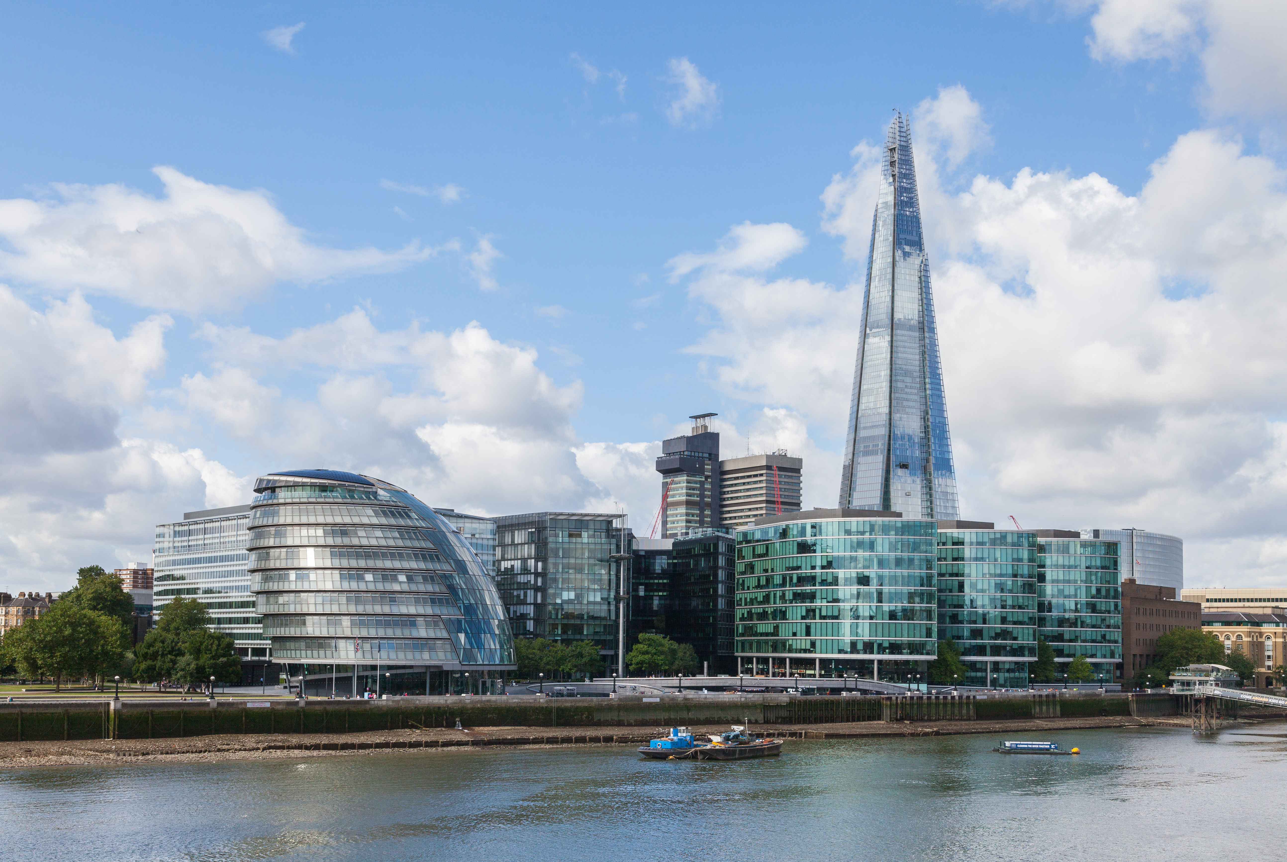 City Hall and Shard, London, England